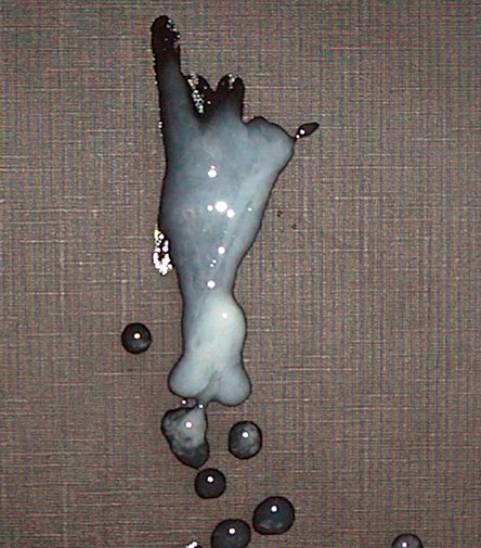 semen, human male ejaculate